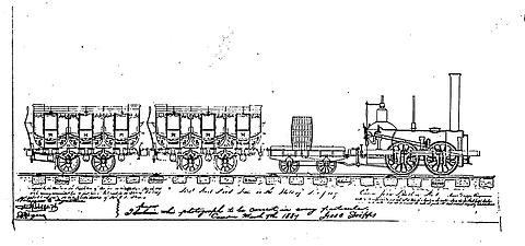 The locomotive John Bull and train as drawn by Isaac Dripps, the mechanic who assembled the locomotive for the Camden and Amboy Railroad. The locomotive was manufactured in England, dismantled and shipped to the United States. Dripps assembled the locomotive in 1831; he made this drawing in 1887.